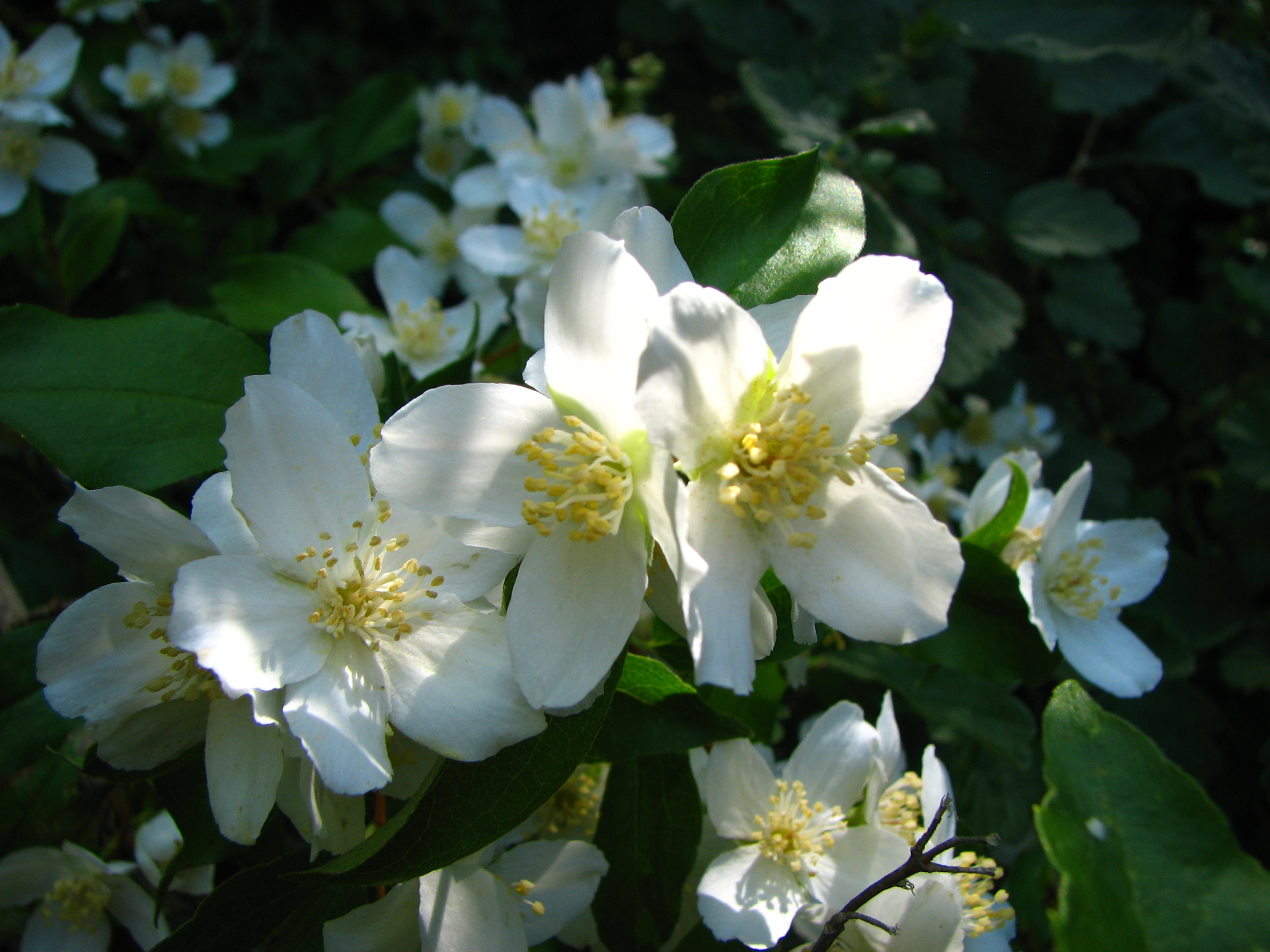 Blossoms of Lewis's Mock-orange (Philadelphus lewisii) along the Coyote Ridge Trail in the North Fork Umatilla Wilderness, Umatilla National Forest, Oregon, United States.